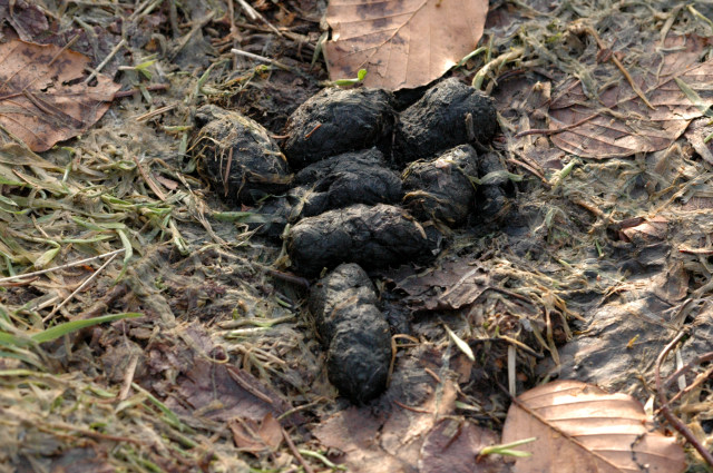 Sus scrofa droppings, from Commanster, Belgian High Ardennes (50°15'20``N,5°59'58``E)